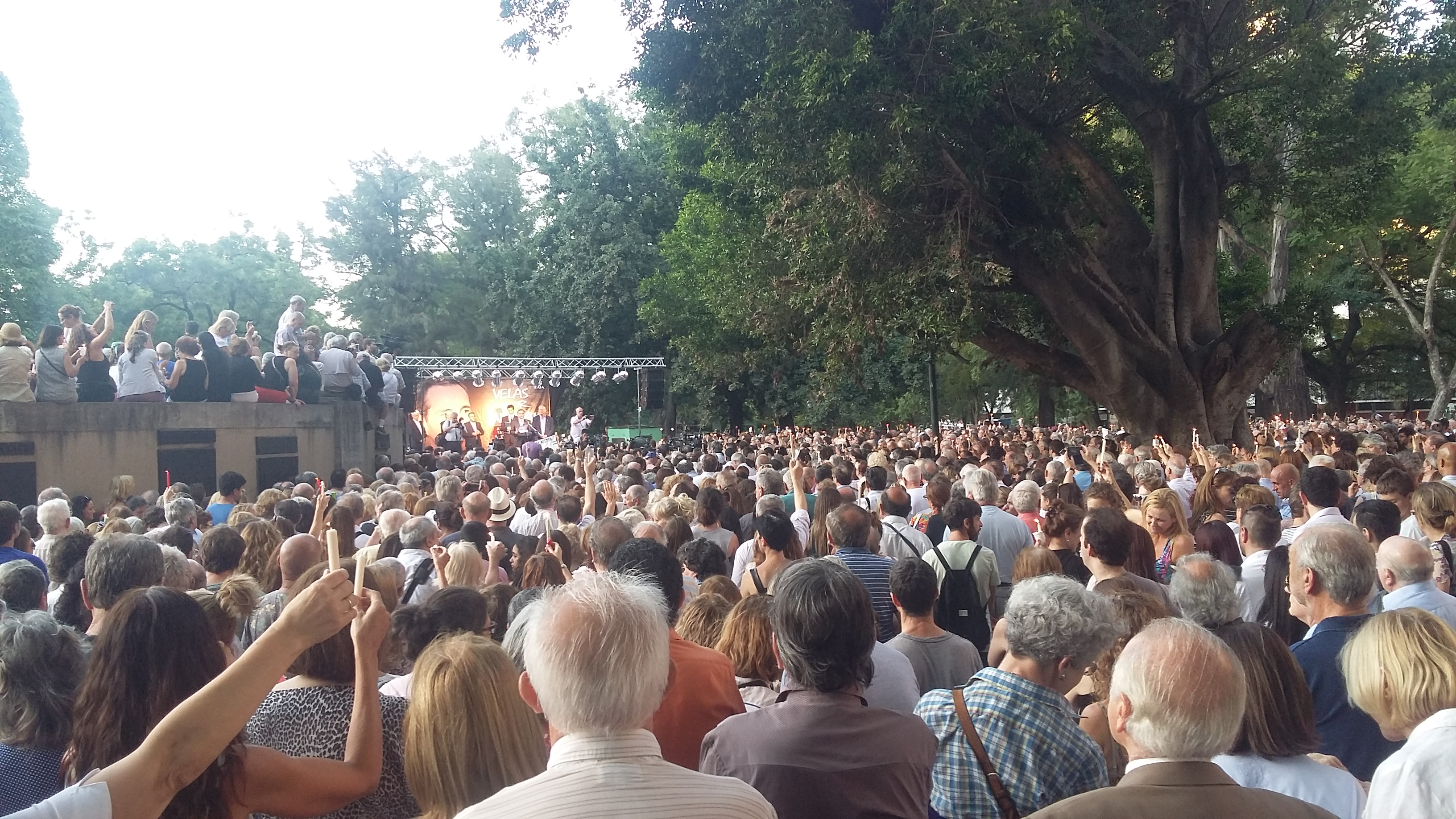 Protest march in Buenos Aires 1 year death anniversary of Alberto Nisman